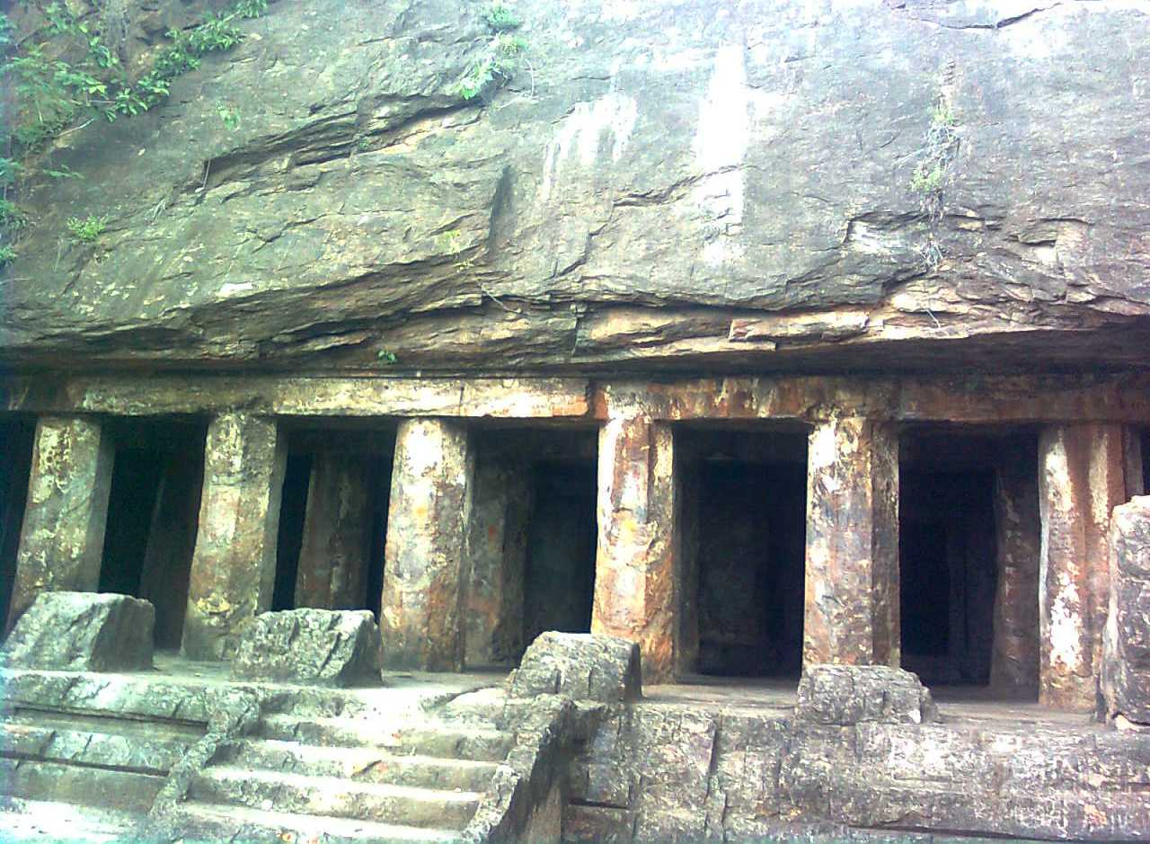 Upper Cave at Akkanna Madanna Rock cut Caves at Foot hill of Indrakeeladri in Vijayawada